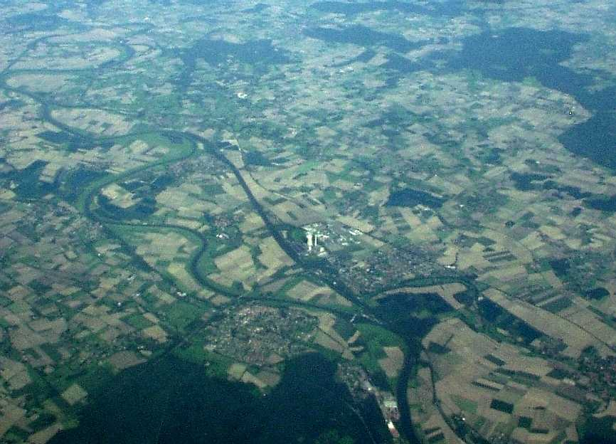 Weser River and Coal power plant in Petershagen, Minden-Lübbecke, North Rhine-Westphalia, Germany.